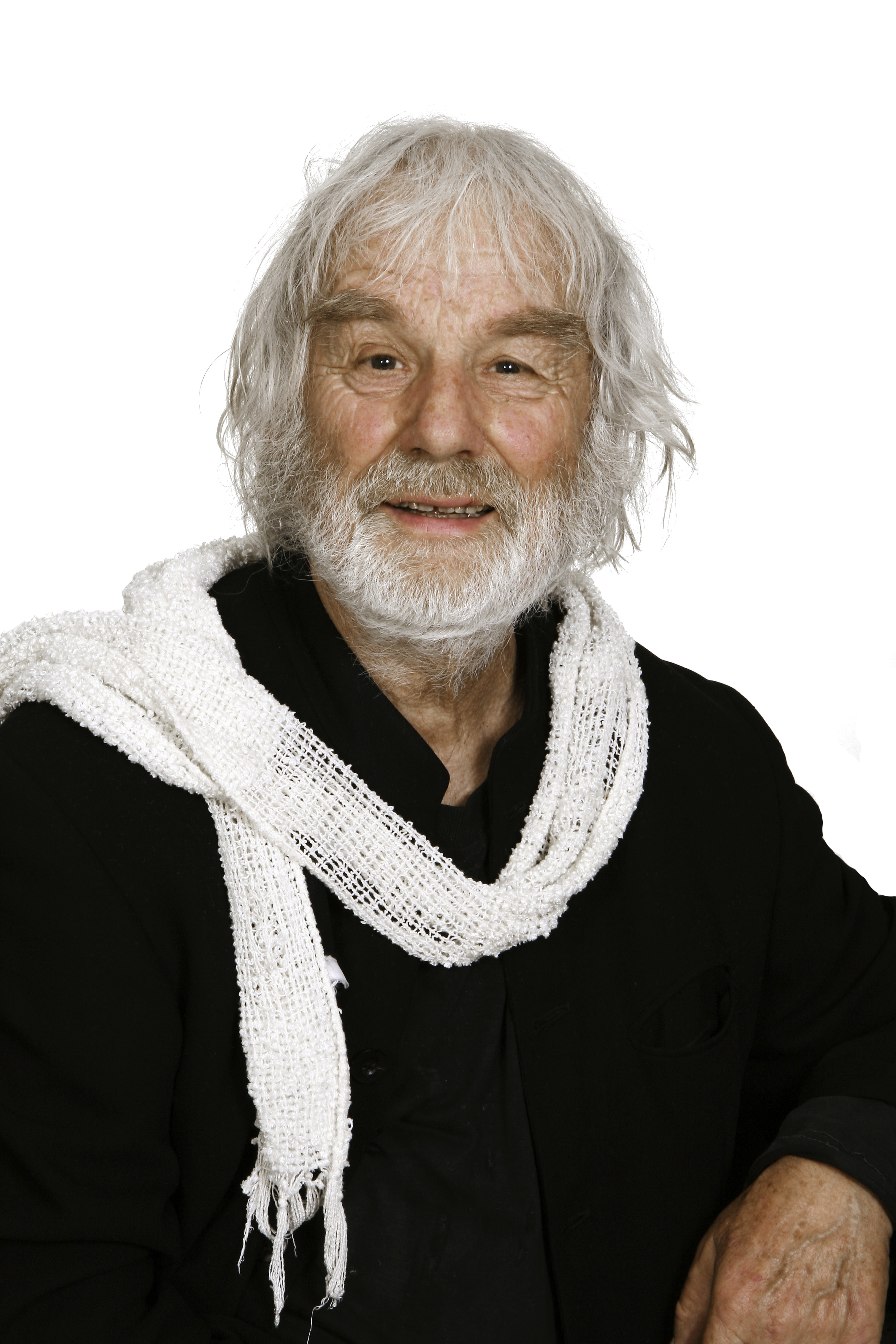 Ernst Sieber, Swiss pastor, caretaker and politician, Switzerland. Date: 23.7.2007